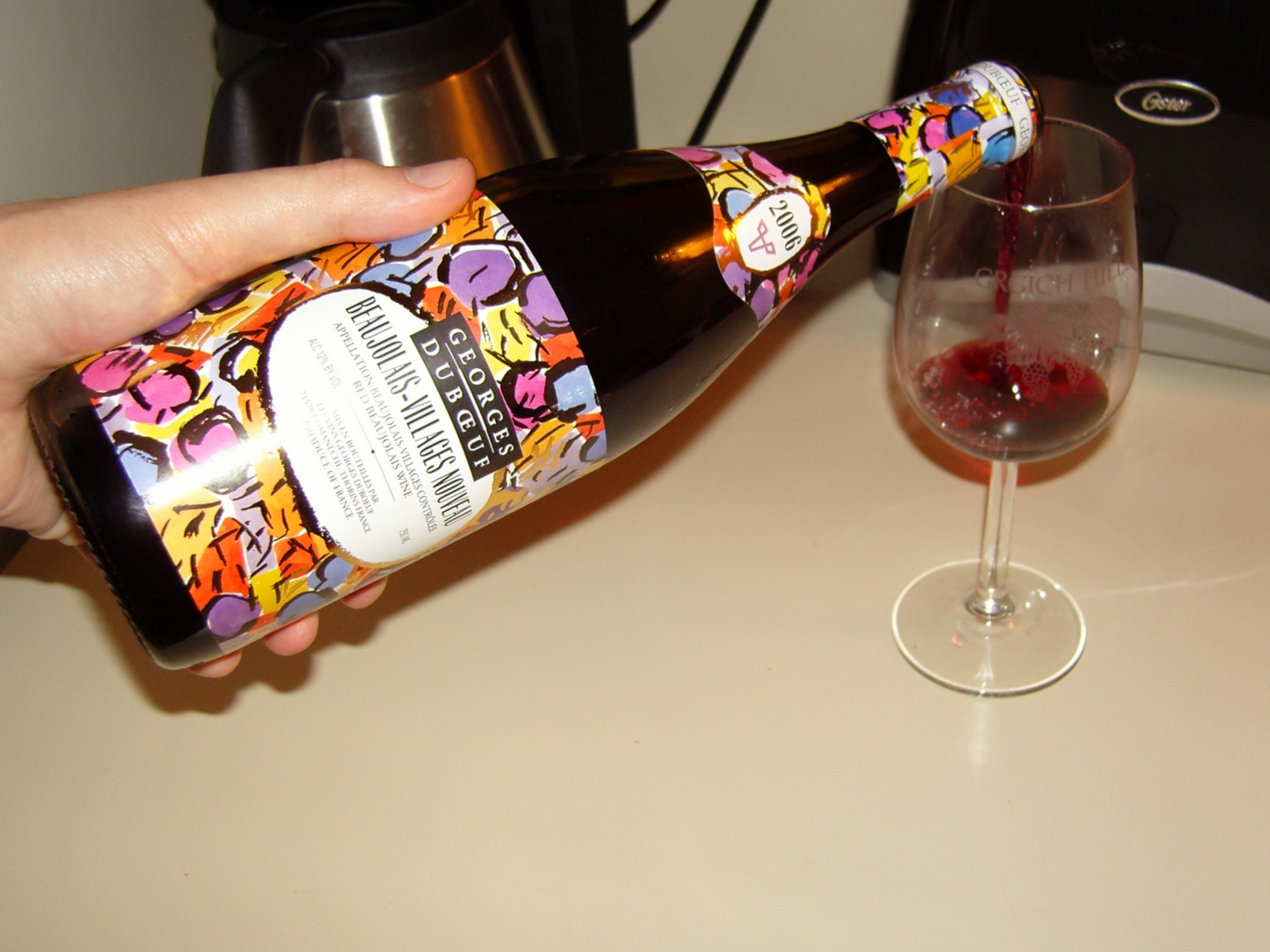 French wine from Beaujolais